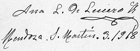 Anna Larroucau, signature